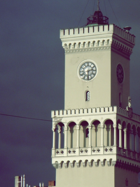 Town Hall Tower in Żagań.